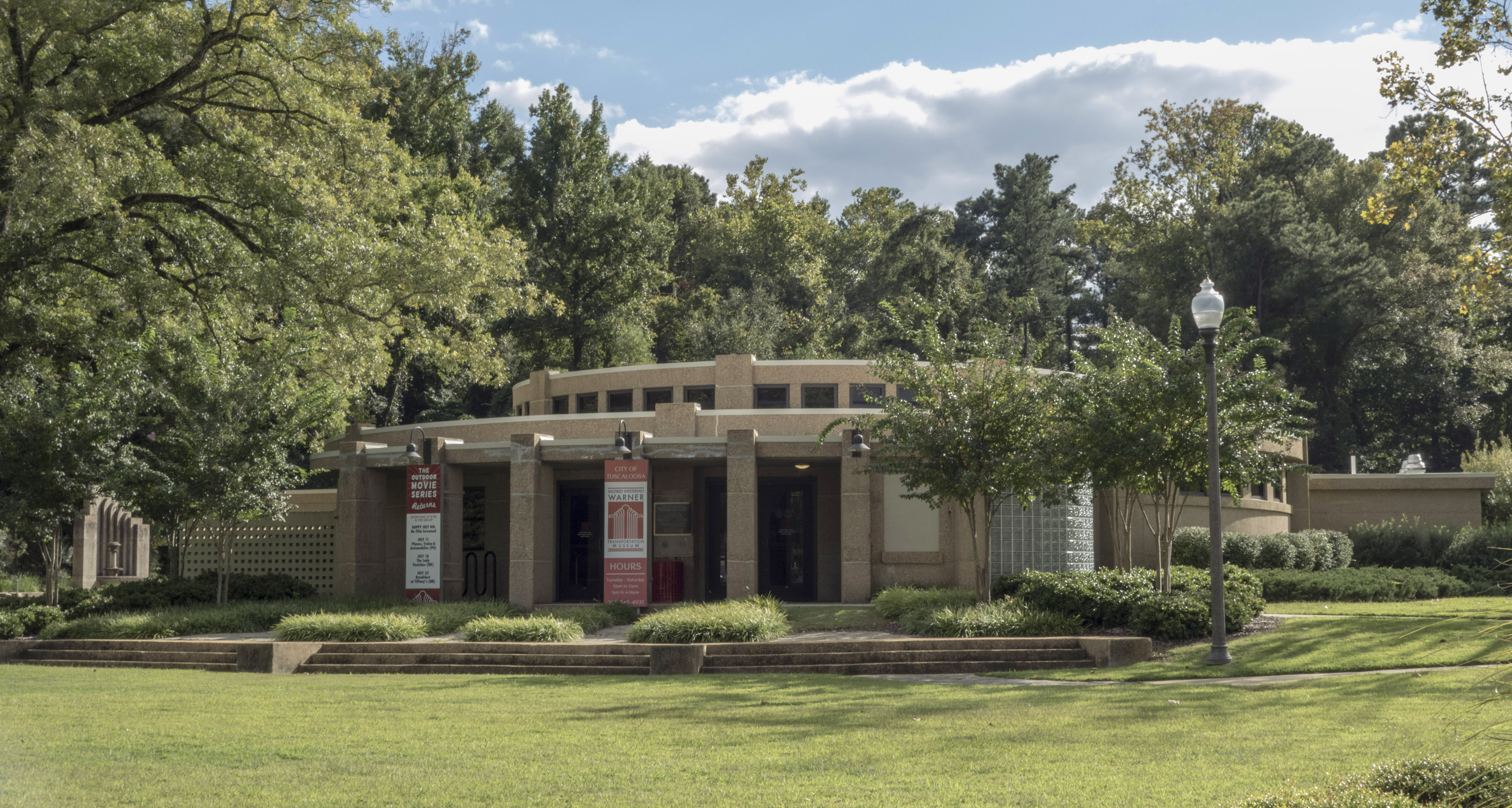 Queen City Pool and Pool House, Junction of Queen City Ave. and Riverside Dr. Tuscaloosa